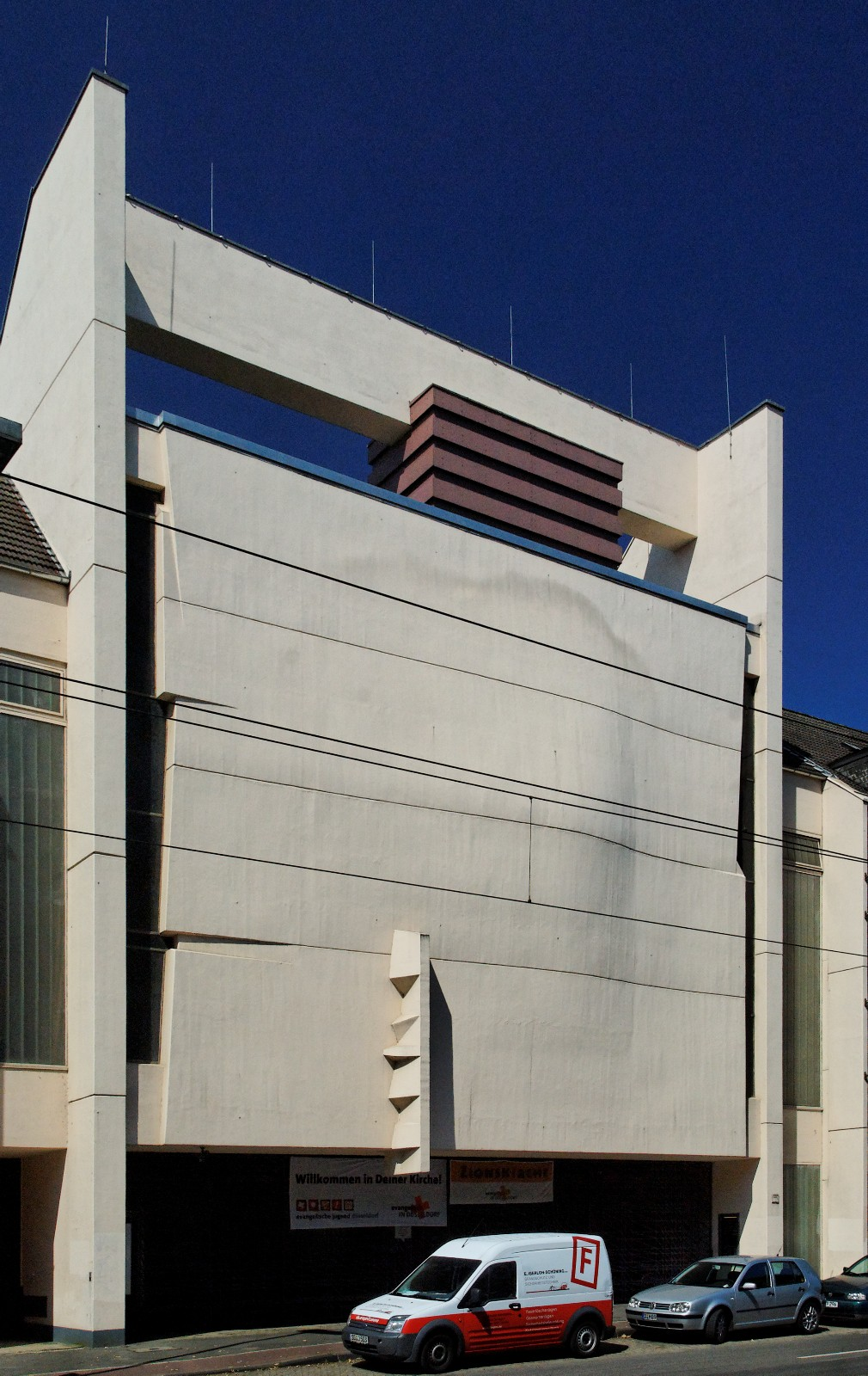 Zion Church in Düsseldorf-Derendorf, Germany